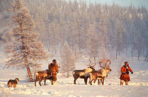 Winter reindeer herders Photographer: Harris, Paul Subjects (LCSH): Shepherds Reindeer Koryaks Arctic peoples Digital Collection: Central Eurasian Information Resource Persistent URL: Visit Special Collections page for information on ordering a copy. University of Washington Libraries. Digital Collections